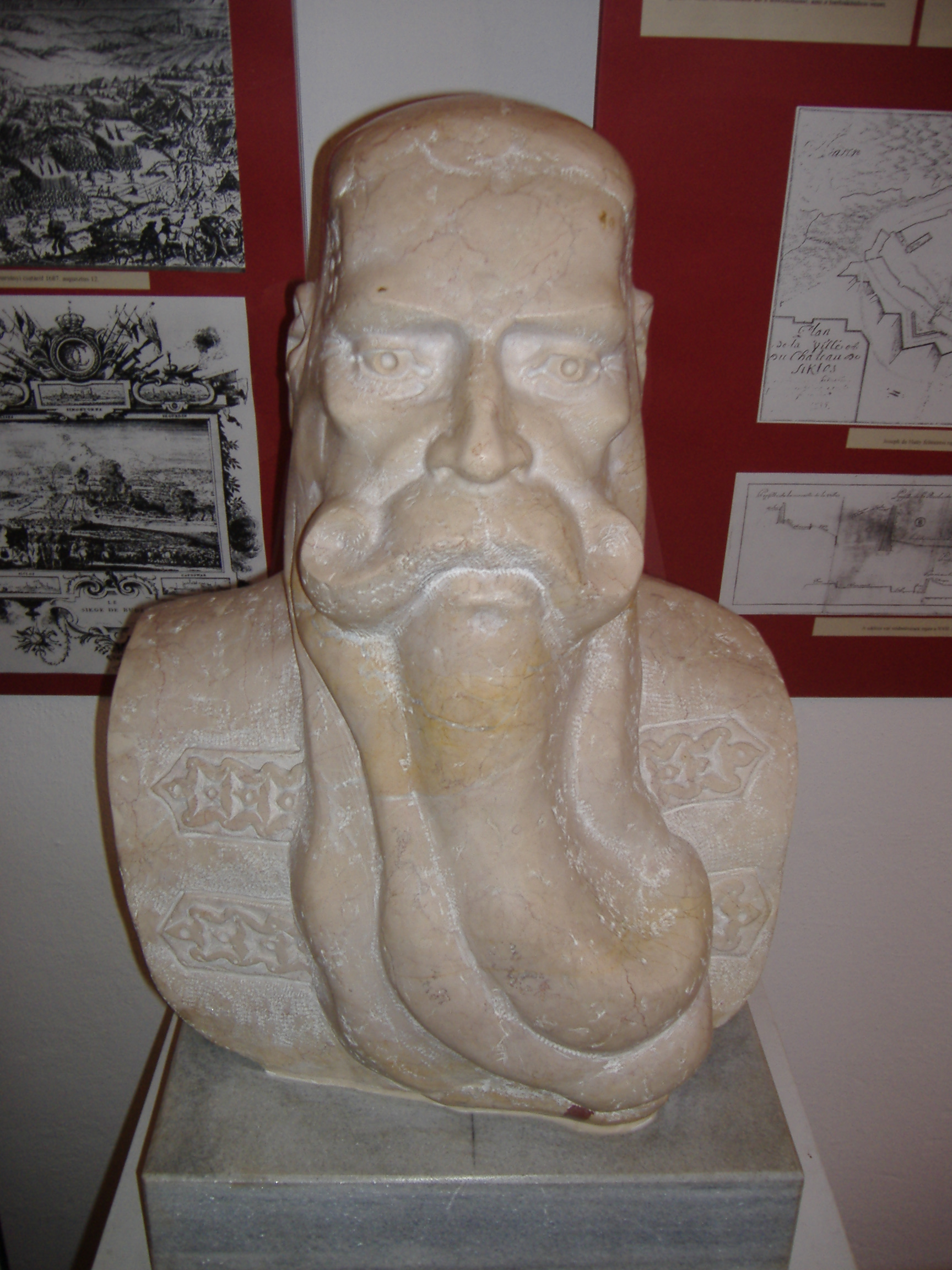 Statue of Péter Perényi, Voivode of Transylvania in Siklós, Hungary.